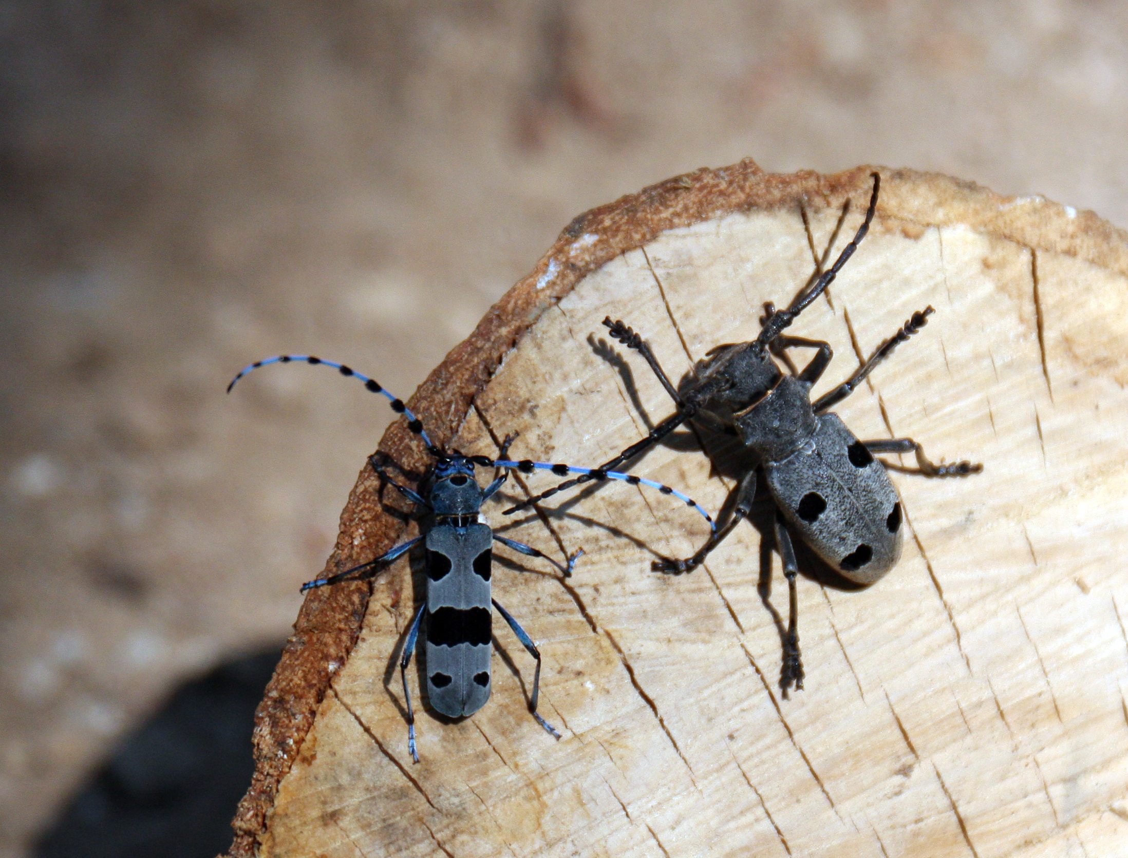 Side-by-side comparison of Rosalia alpina (left) and Morimus funereus (right) beetles, taken during field monitoring trip on Mt. Boč, E Slovenia.